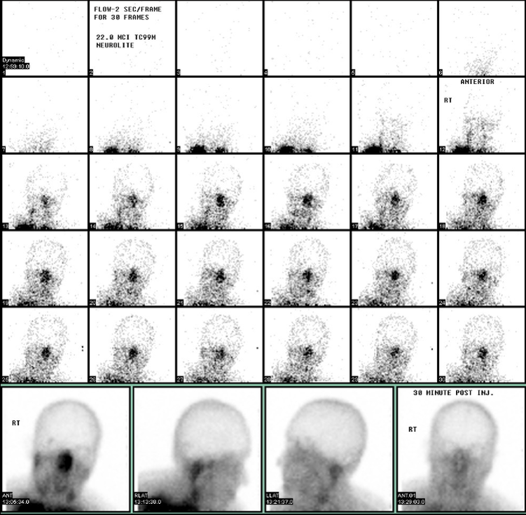 Radionuclide scan of the head with Tc-99m Neurolite shows lack of intracranial blood flow and "hot-nose" sign from diversion of blood flow to the external carotid arteries.